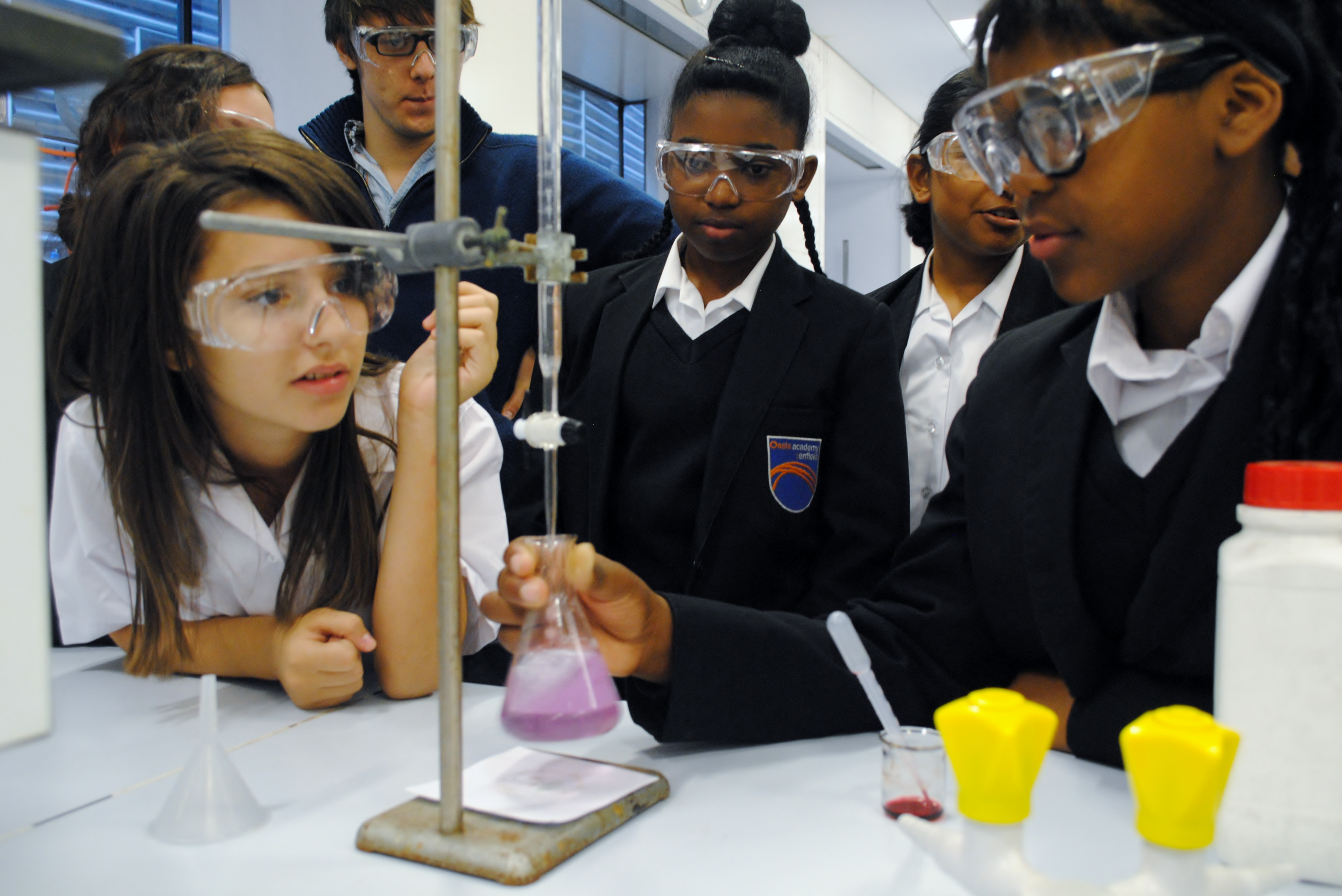 A titration is demonstrated to high school students at an event at University College London.